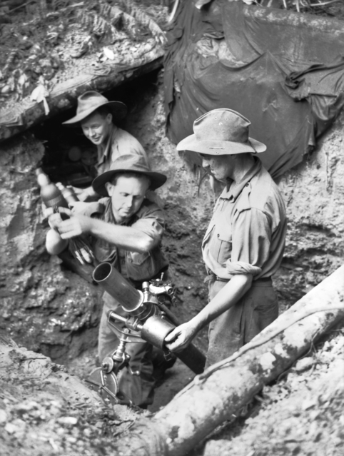 Mortars from the Australian 2/6th Infantry Battalion firing in New Guinea, August 1943